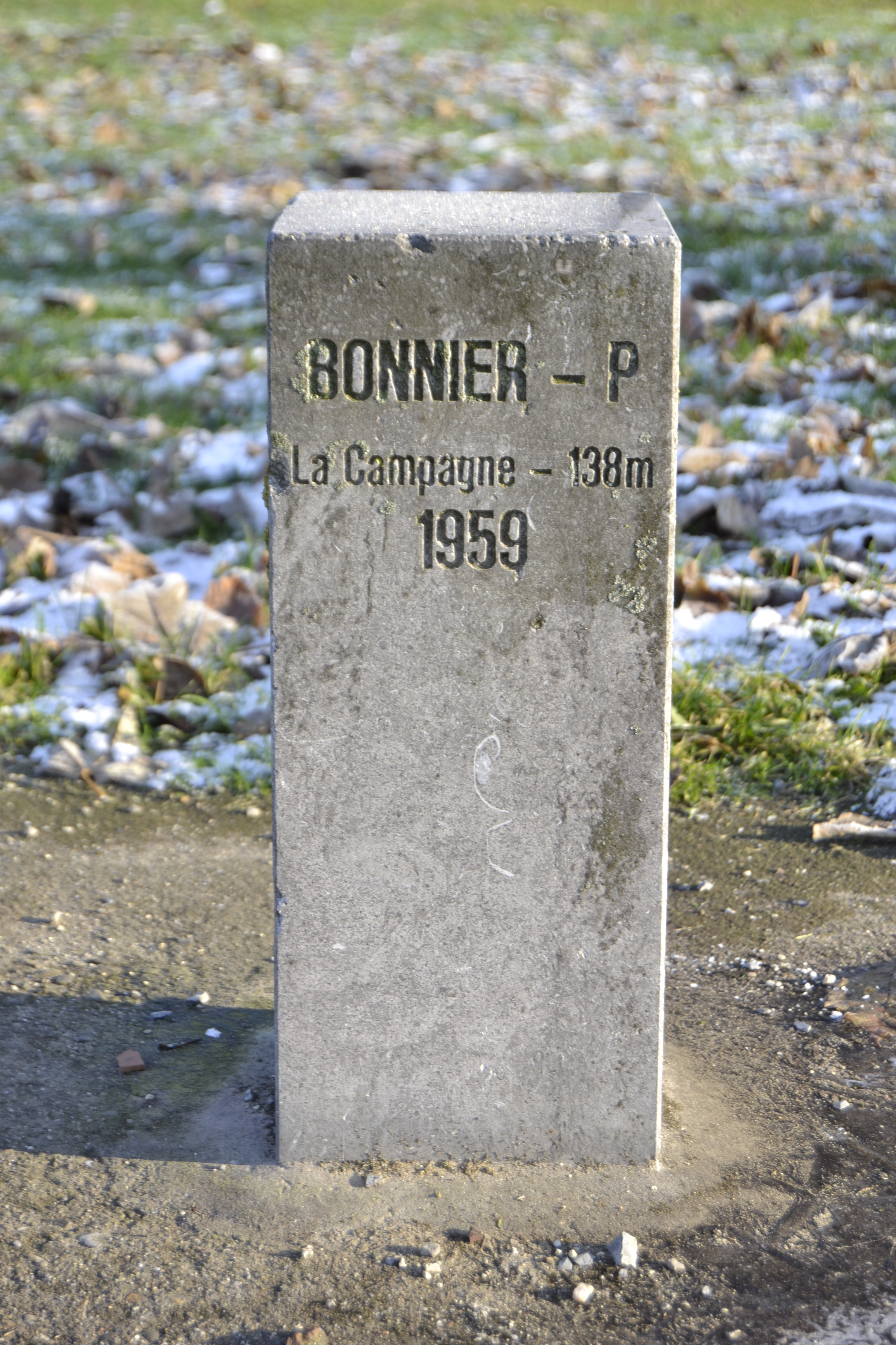 Ancient La Campagne pit of the Bonnier coal mine in Grace-Hollogne, Liège, Belgium